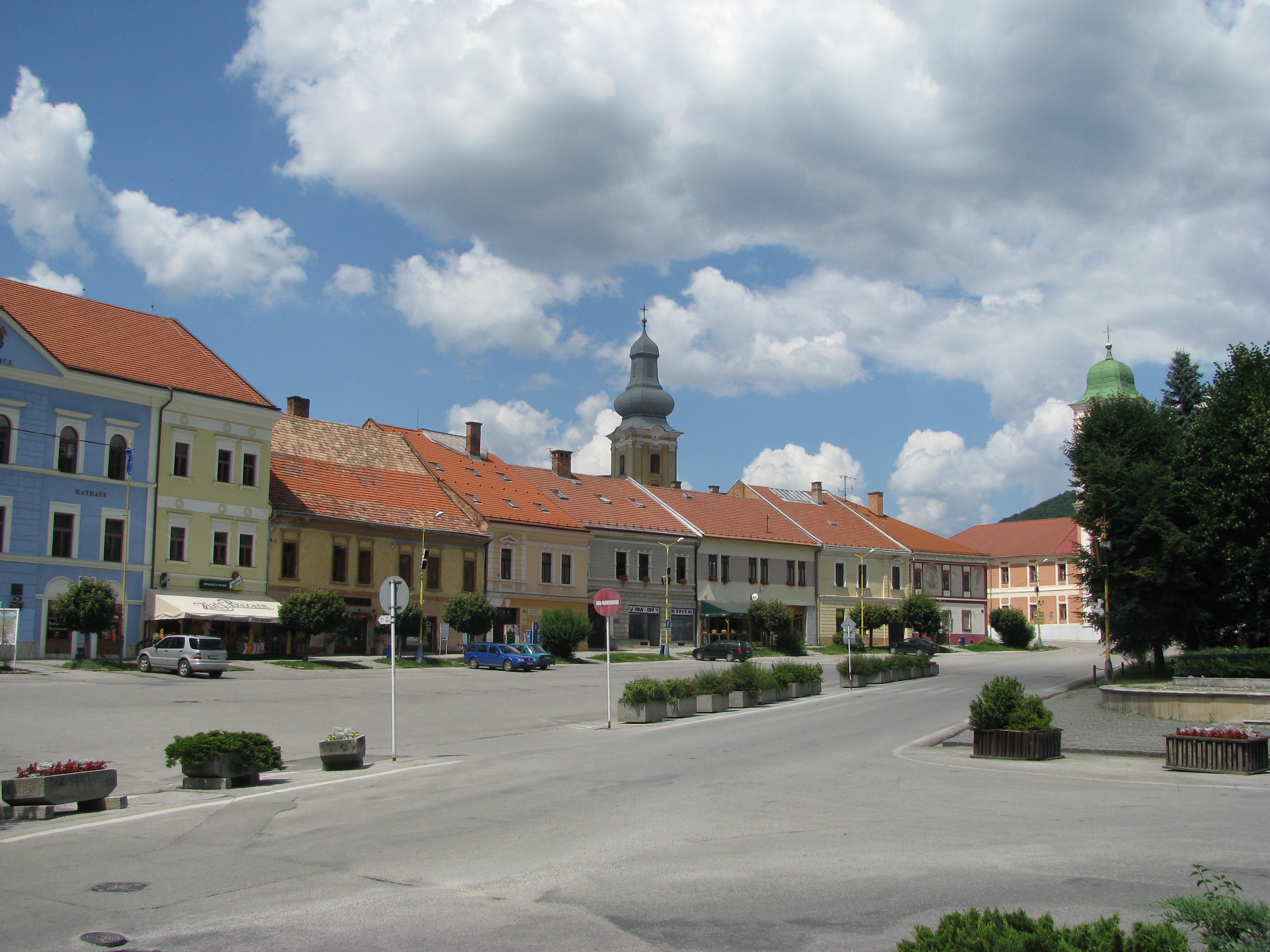 Roznava, Slovakia, Market Place